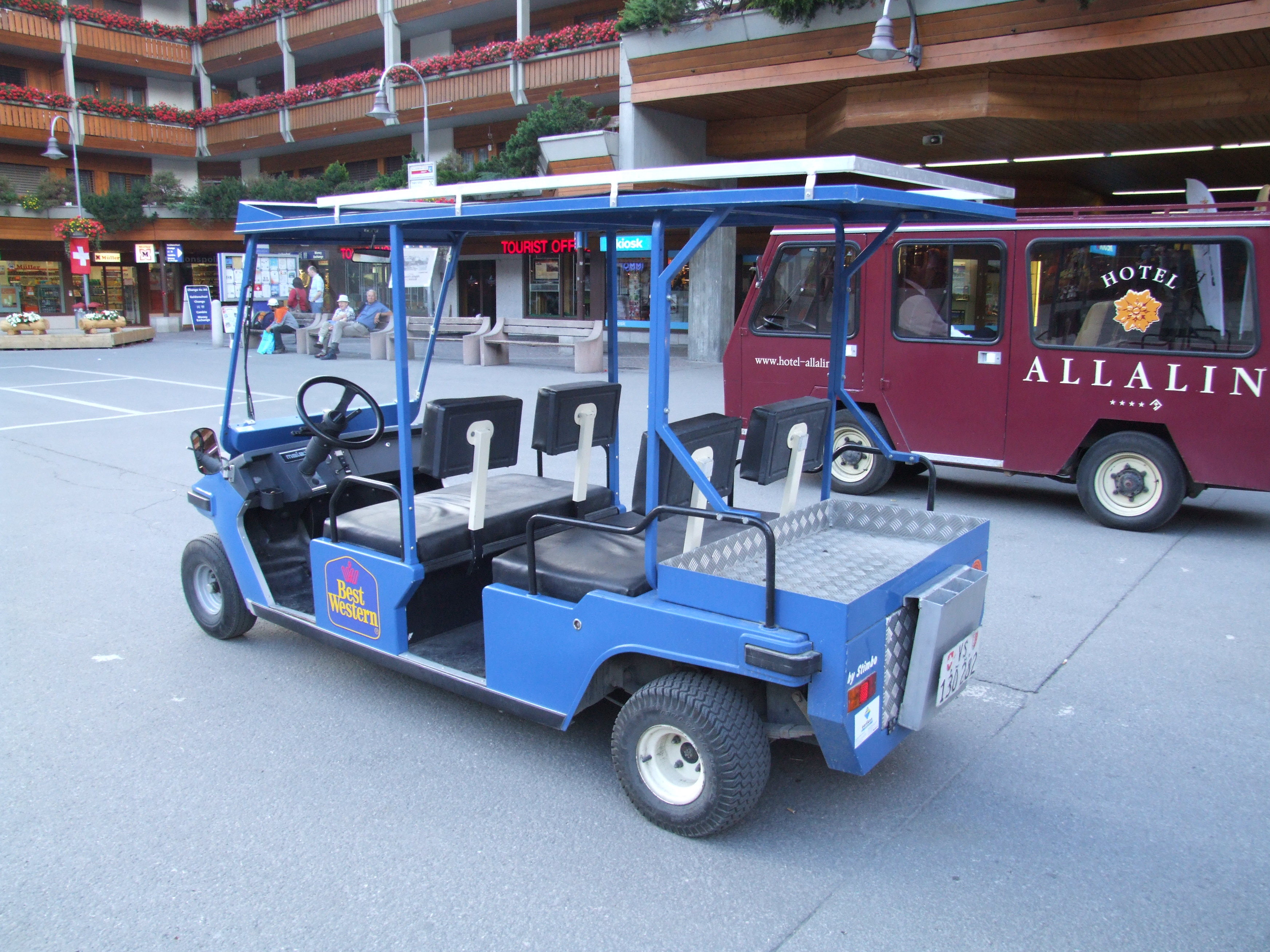 electric vehicle of Melex, near rail-station of Zermatt, Switzerland